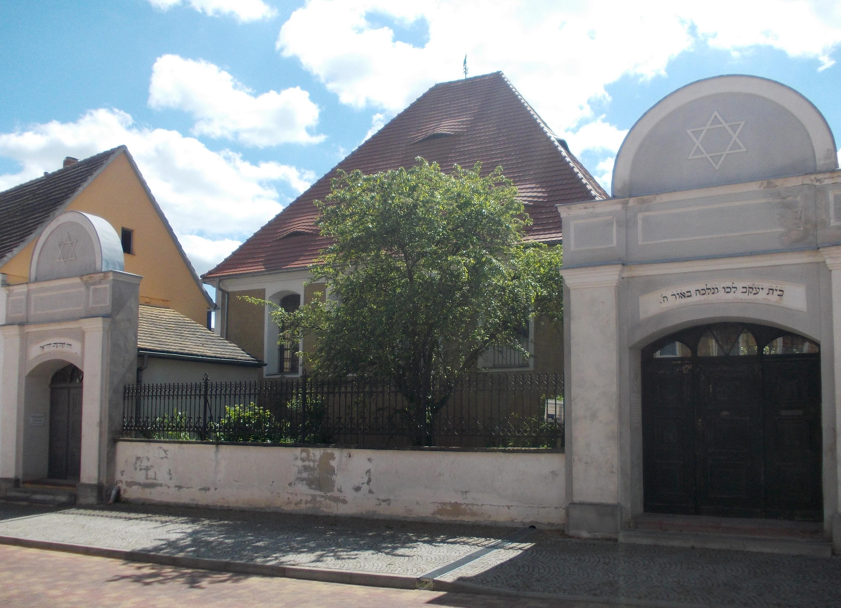 The synagogue of Gröbzig (Südliches Anhalt, Anhalt-Bitterfeld district, Saxony-Anhalt)